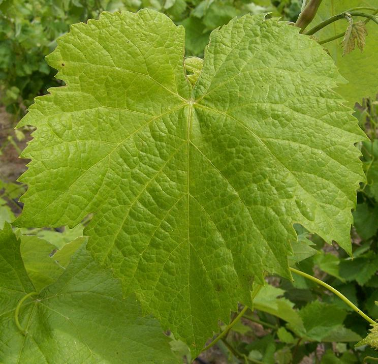 Souzao leaf from Hedges vineyard in the Red Mountain AVA. Photo take Sun, June 10th 2007 with a kodak z650